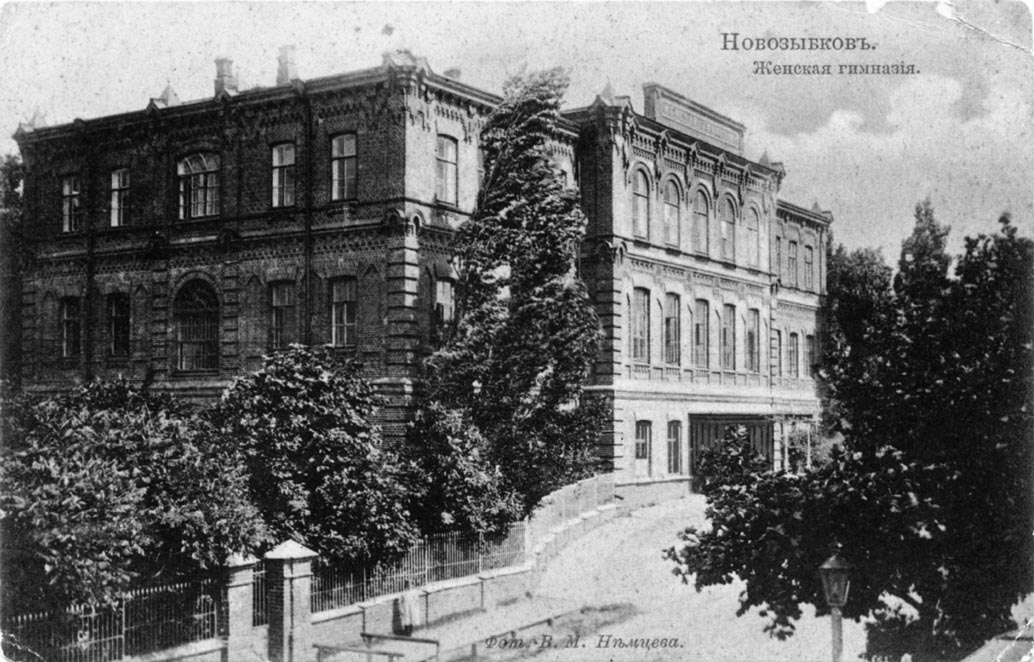 Novozybkov, Bryansk oblast. Female Gymnasium